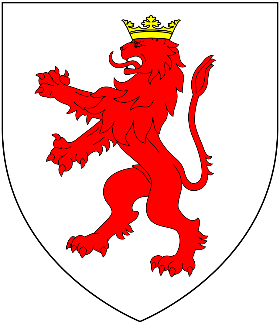 Arms of Turberville: Argent, a lion rampant gules crowned or (Source: Vivian, Lt.Col. J.L., (Ed.) The Visitation of the County of Devon: Comprising the Heralds' Visitations of 1531, 1564 & 1620, Exeter, 1895, p.740)